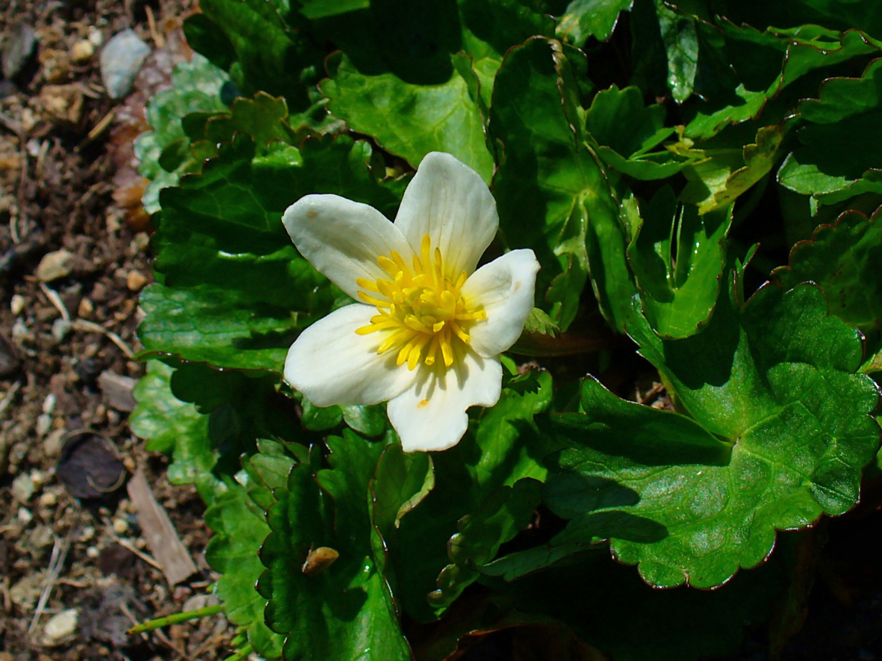 Caltha palustris var. alba, Ranunculaceae, White Kingcup, White Marsh Marigold, flower; Heidi’s Flower Trail, St. Moritz, Engadin, Switzerland, altidude ca. 2.000 m.